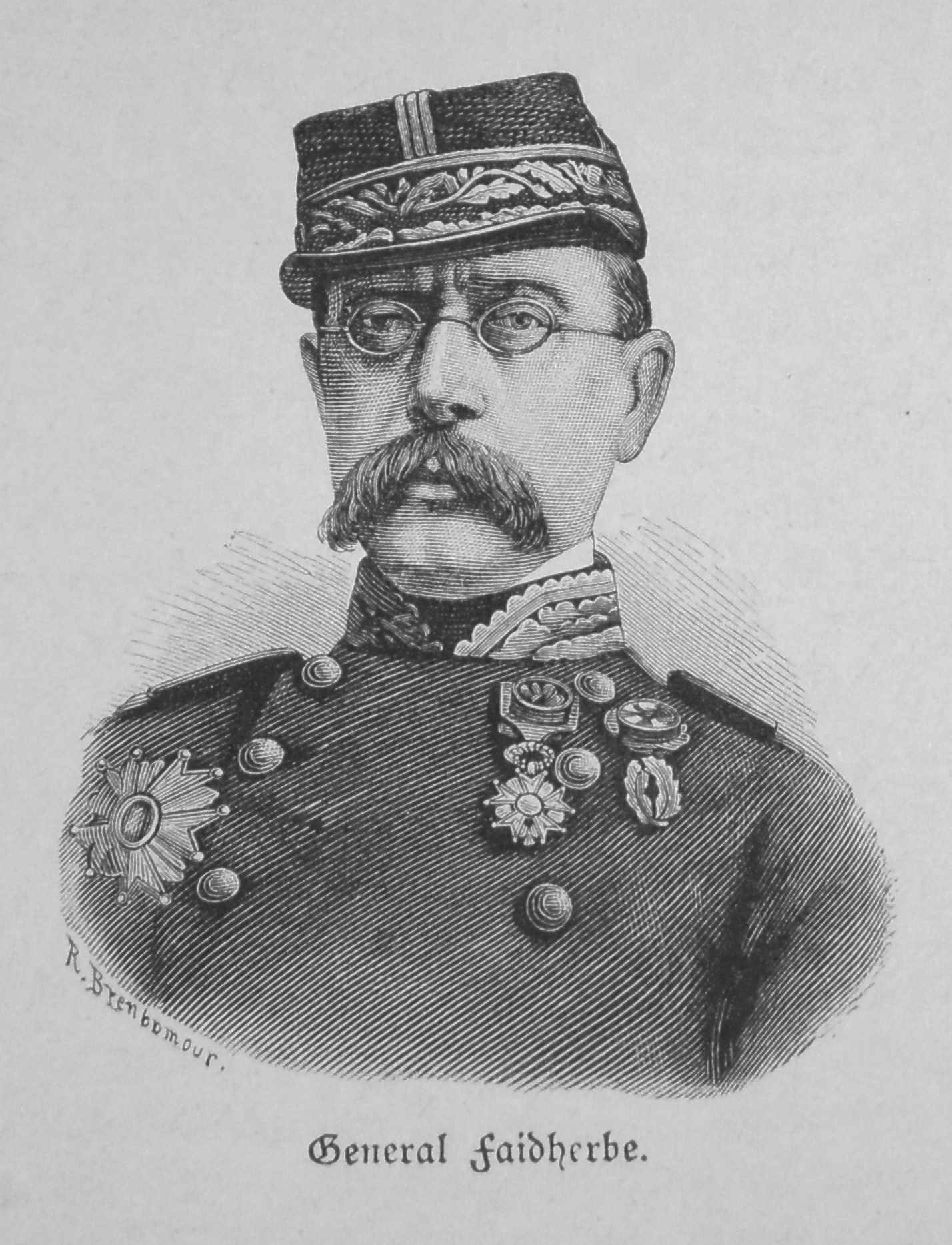 general Faidherbe